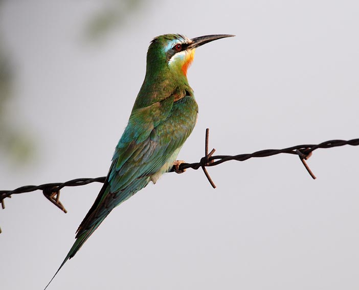 Blue-cheeked Bee-eater, Tal Chhapar Sanctuary, Rajasthan, India